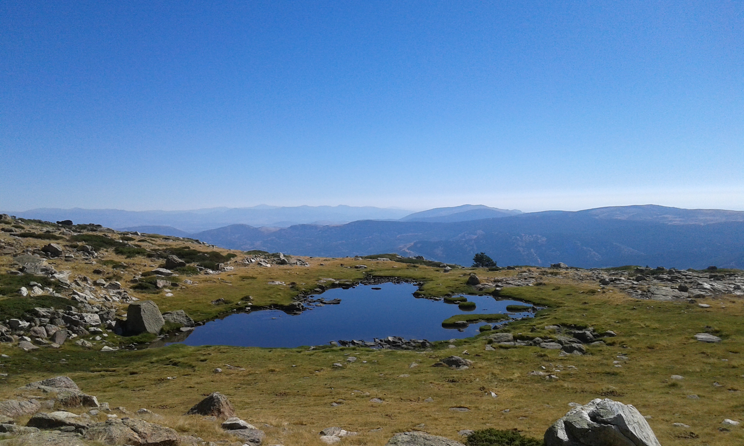 This is a photography of a Special Area of Conservation in Spain with the ID: ES3110004. Natura2000 entry, EEA entry